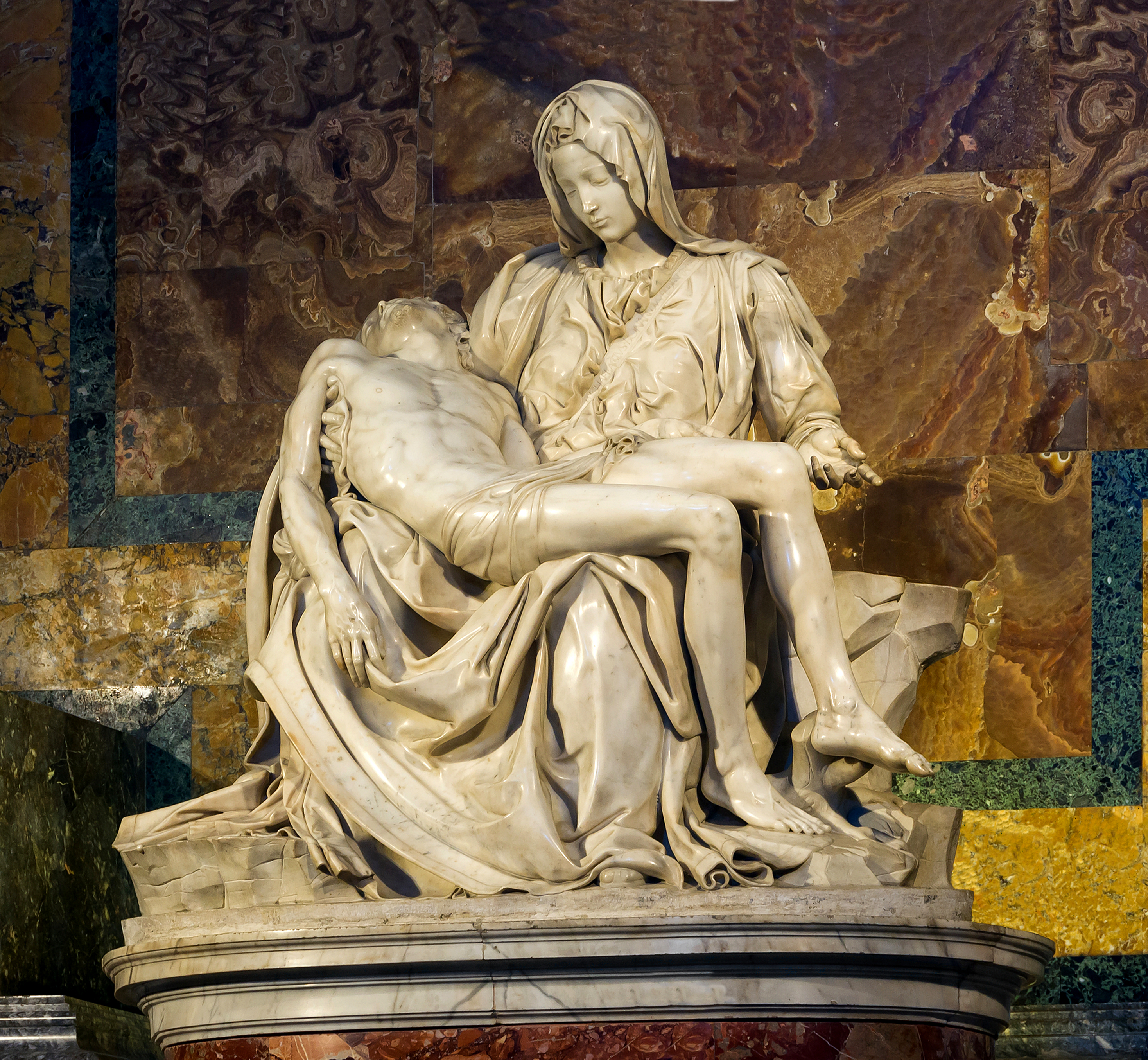 the "Pietà" by Michelangelo, Saint-Peter's Basilica, Vatican City.